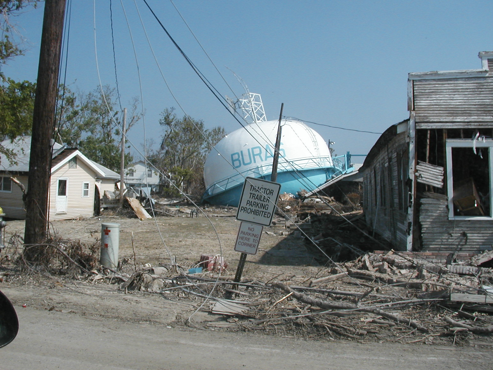 Hurricane Katrina aftermath in Plaquemines Parish, Louisiana. Downed water tower in town of Buras.